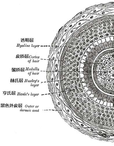 Transverse section of hair follicle